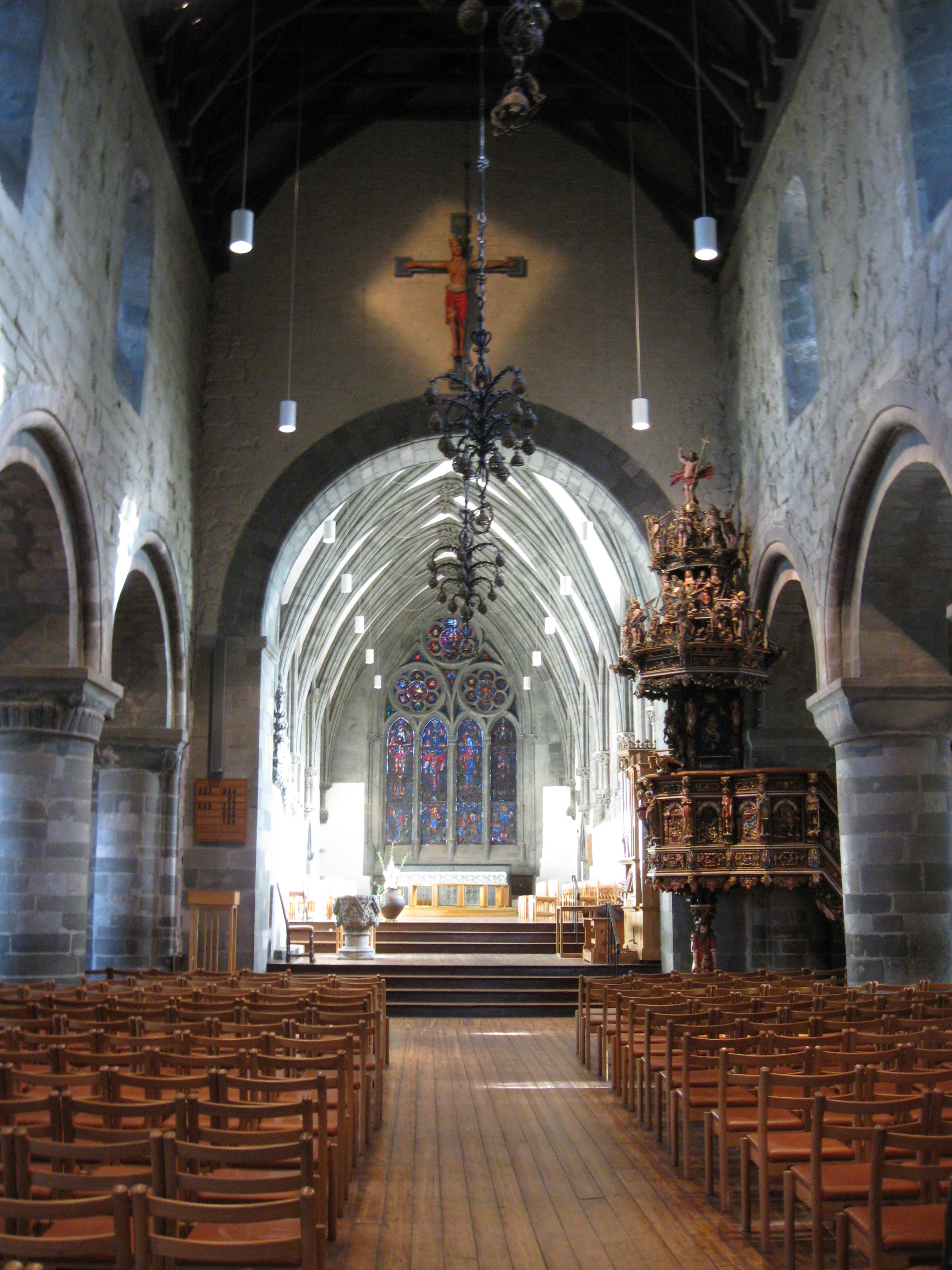 Interior of the Stavanger Cathedral.